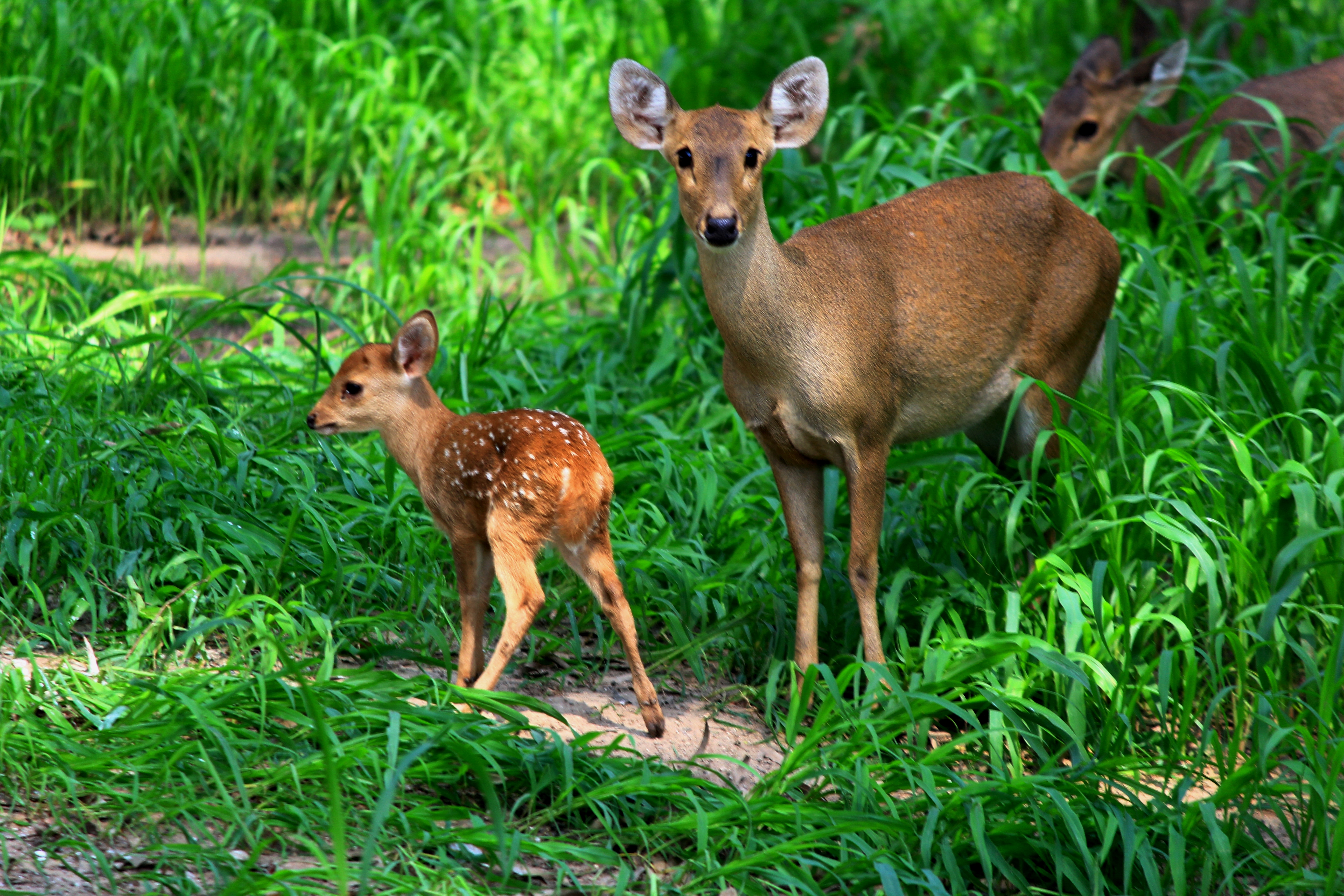 Hog Deer(Female) with fawn at ChattBir Zoo Binomial name: Hyelaphus porcinus ChattBir Zoo Zirakpur Mohali Punjab